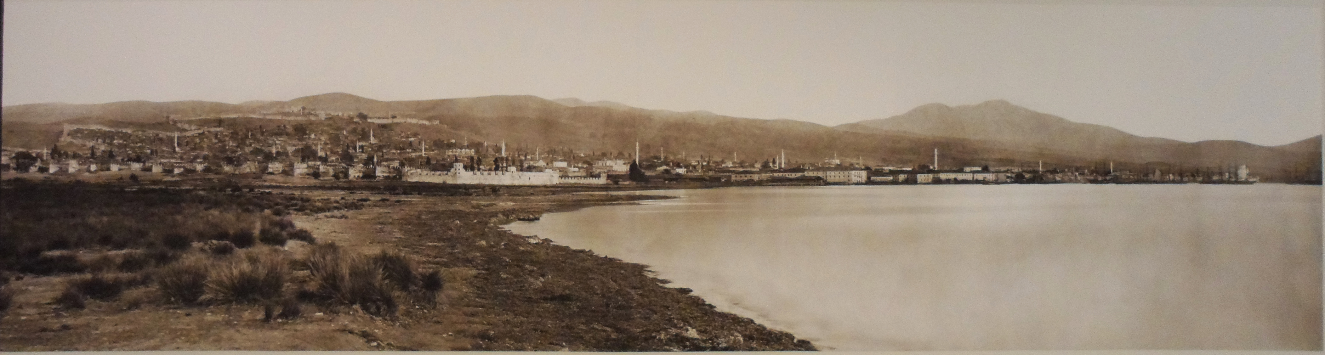 This photograph of Thessaloniki was taken by the Hungarian photographer Joseph Székely (1838-1901) and was rediscovered in 2000, after a whole century into oblivion. It was shot during an expedition funded by the Austro-Hungarian Empire in the then ottoman Balkans, led by the scholar and diplomat Johann Georg von Hahn. The Székely archive, in the National Library of Austria (Östereichische Nationalbibliothek), includes five shots of Thessaloniki, two of which can be connected together into a row yielding this impressive panorama of the city. The two-piece photo is unique in many respects: it is documented in 1863, the earliest to day photograph of Thessaloniki: it is taken from the area of Besh Tchinar, a privileged spot for taking panoramic pictures of the city up until 1885; it reveals, for the first time, lost parts, such as the seaside defense wall, the Quay Tower, and the Gate of the Twelve Apostles monastery. It is identified with a known wood engraving, which was initially used as an illustration of a book in English, published 1867. Today, thanks to the rediscovery of Székely's picture, it is clear that engraving was based on this picture, in an era when the transfer into engraving was the only way to impress a photograph onto common (non photographic) paper in order to circulate widely. Thessaloniki is depicted as she was shot before the advent of modernization, which was heralded by the demolition of the seaside wall and the inauguration of the railway in 1870-71. For fifteen centuries the city had been restricted in her historical center, with almost no other settlements outside the enclave of her walls. The area of Besh Tchinar was a wasteland, marked by the currents of Dendropotamos and the moat of the western wall. Some years later, the landscape will dramatically change with the advent of the modern era, which will transform the area completely into an industrial zone, before being included in the premises of the port of Thessaloniki.